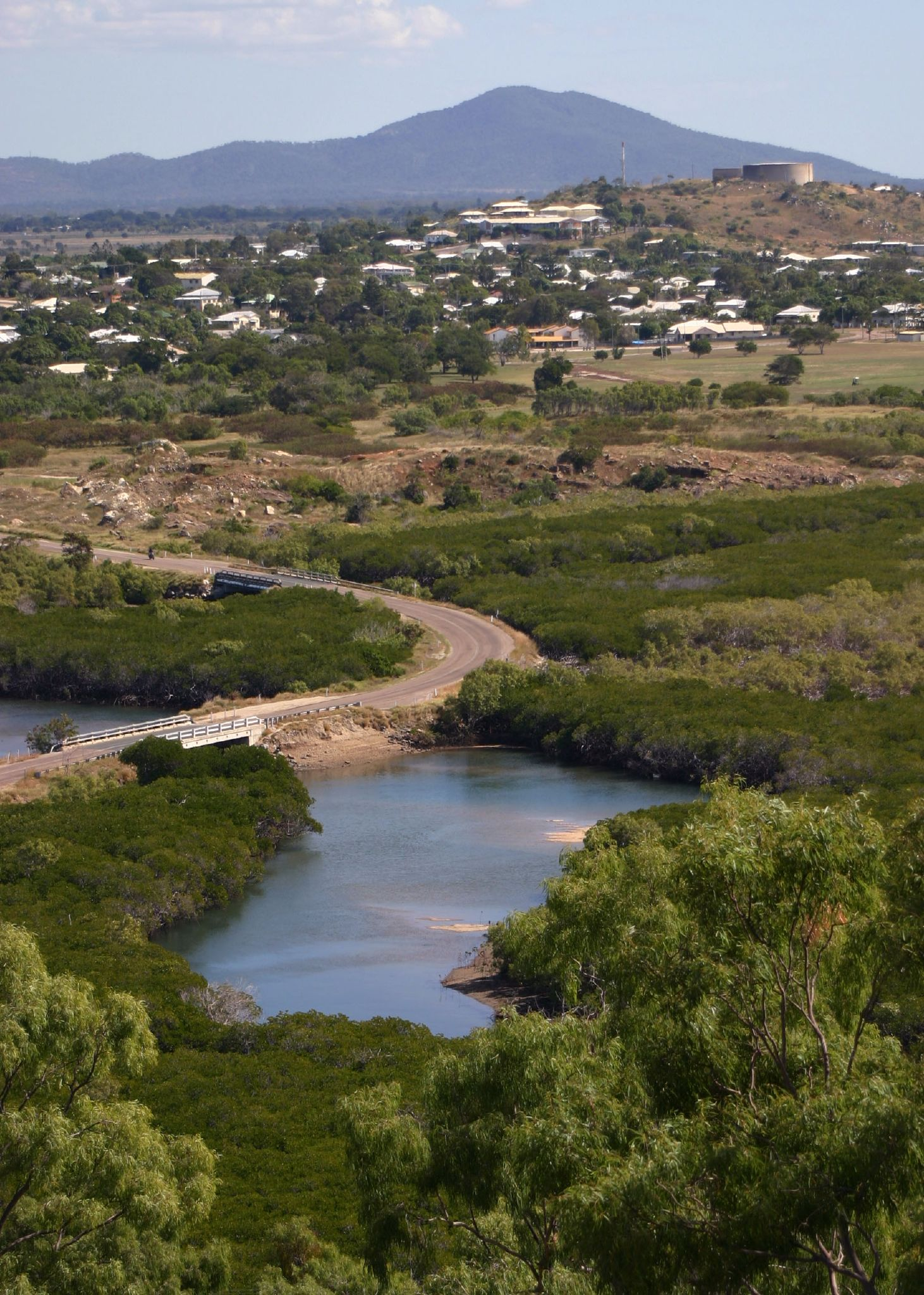 Bowen, Queensland, seen from Flagstaff Hill